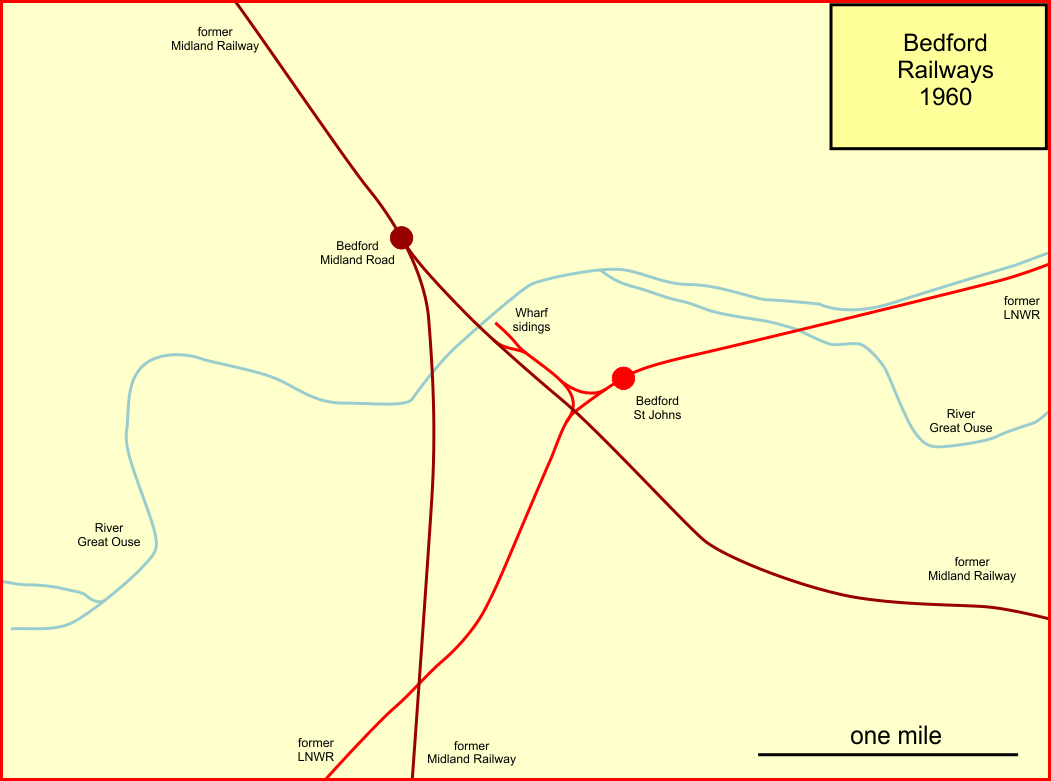 Diagram of railway lines in Bedford UK in 1960